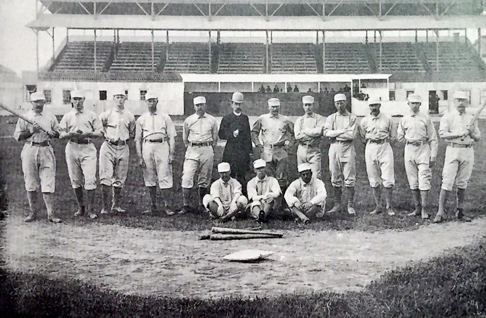 1884 World Series champion Providence Grays baseball teamStanding, left to right: Charles Radbourn, Charlie Sweeney, Miah Murray, Jerry Denny, Paul Hines, Frank Bancroft, Joe Start, Charley Bassett, John Cattanach, Cliff Carroll, Arthur Irwin, Jack FarrellSitting, left to right: Barney Gilligan, Paul Radford, Sandy Nava